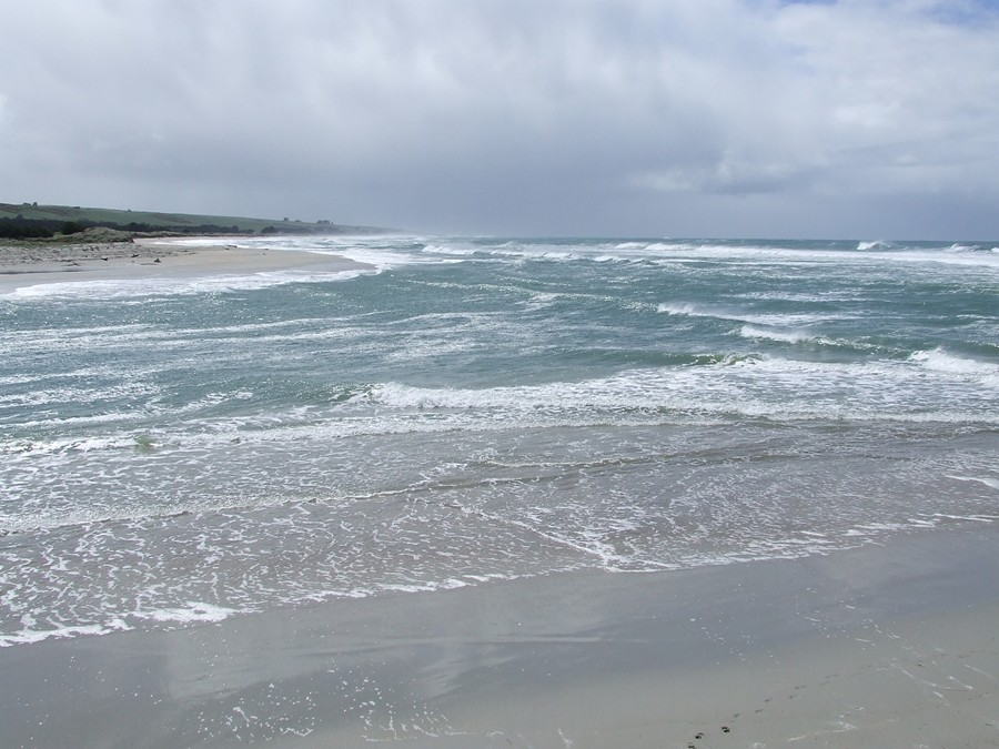 Toko Mouth, Mouth of Tokomairiro River, Clutha District of Otago in New Zealand.